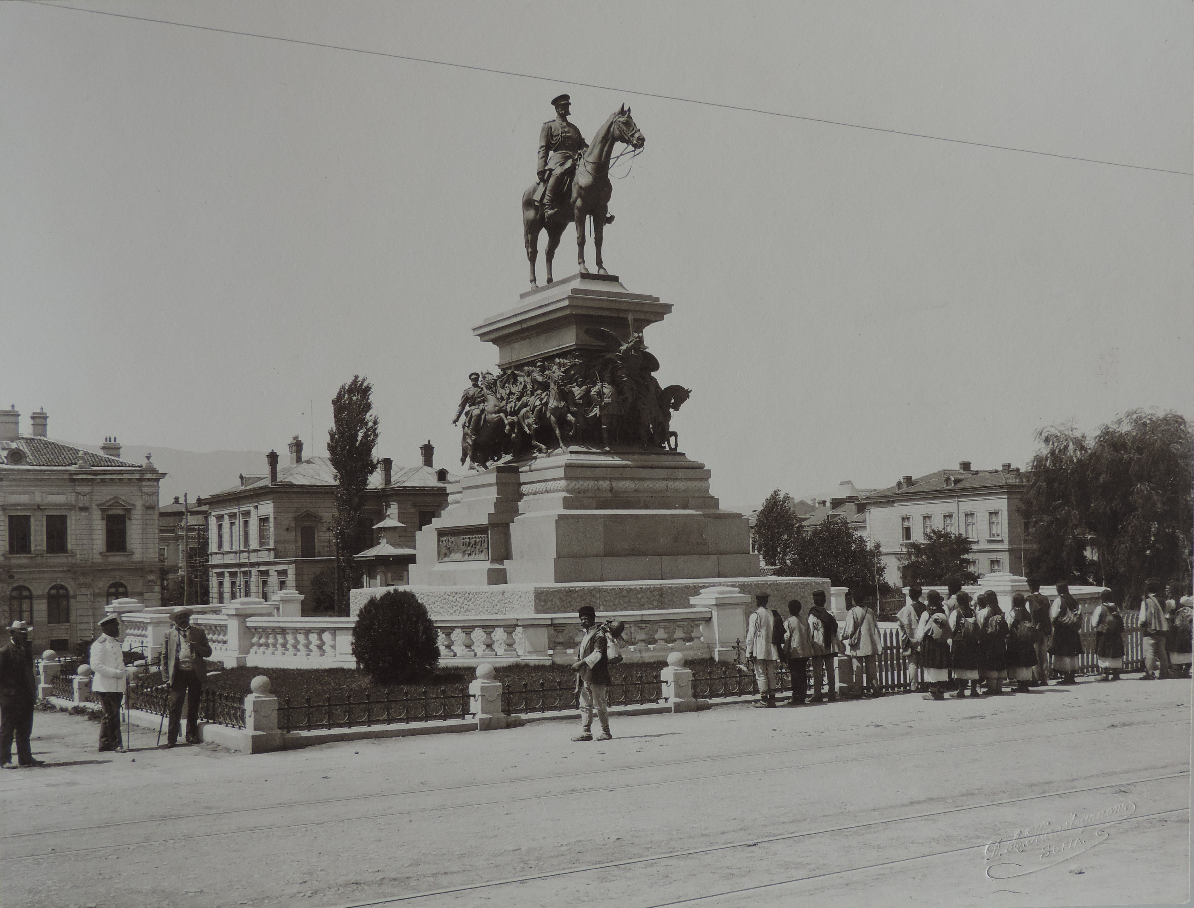 Historic military photos. The monument to the Tsar Liberator in Sofia.